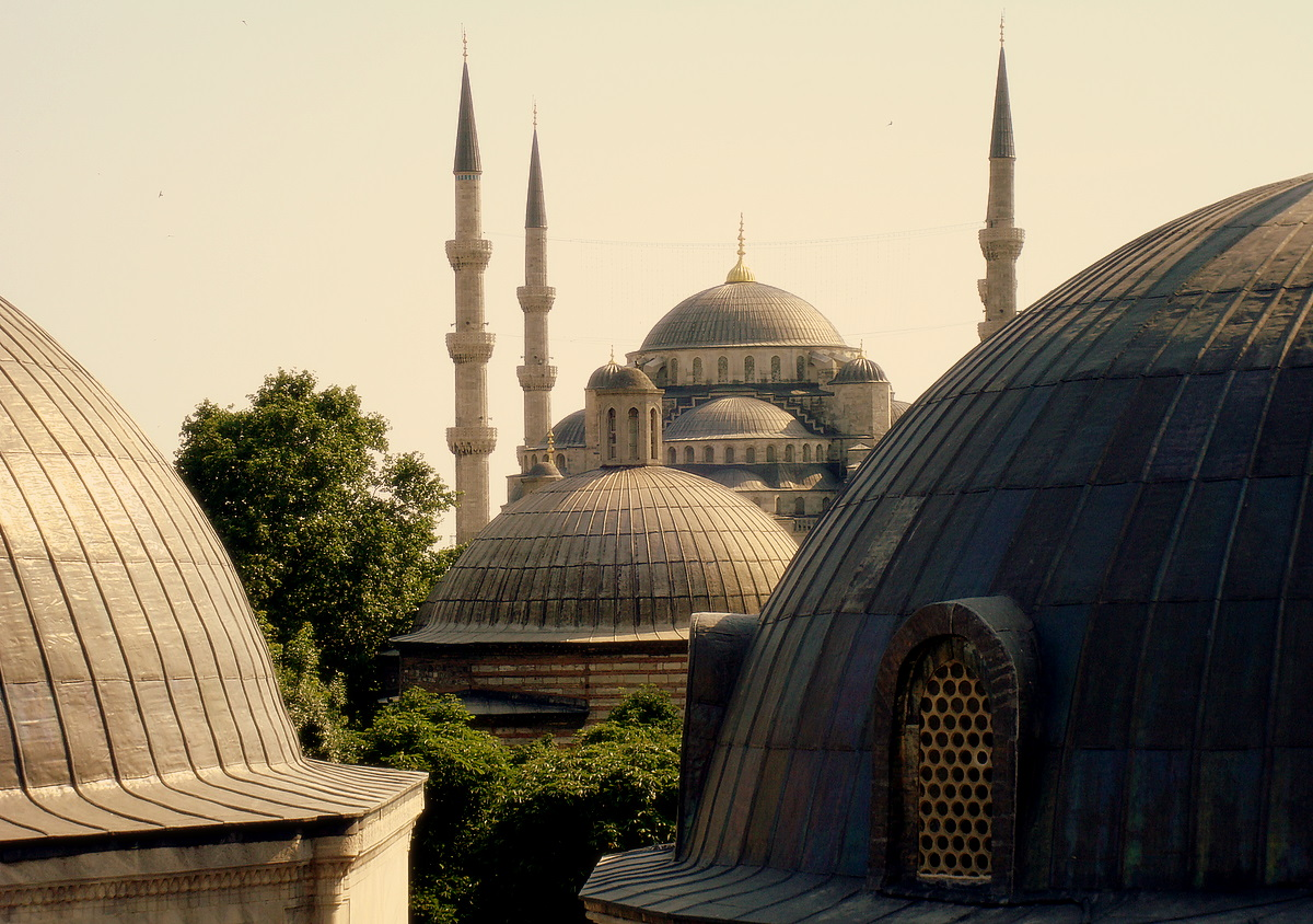 Sultan Ahmed Mosque